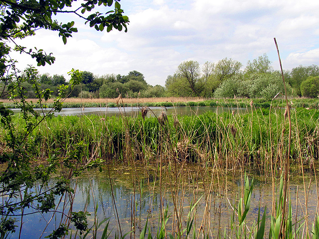 Thatcham Reedbeds Nature Reserve. This picture was taken from next to the bird hide in the nature reserve, looking more or less west across the very small pond which is not marked on the OS Map, but is marked on the Reserve's Map. The pond lies between the stream and the path, in the north eastern section of the grid square.